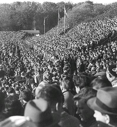 Landskrona IP football ground. Photo of the norh terreces stand during an importaint match in the 1950's.